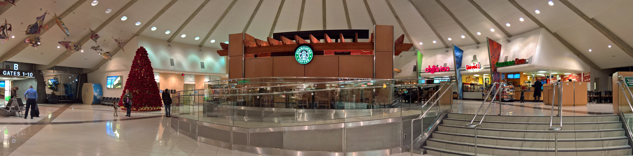 Interior view of the Rotunda at Spokane International Airport